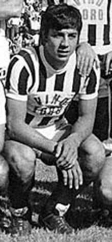 Juan Gilberto Funes wearing the shirt of Gimnasia de Mendoza in 1983.